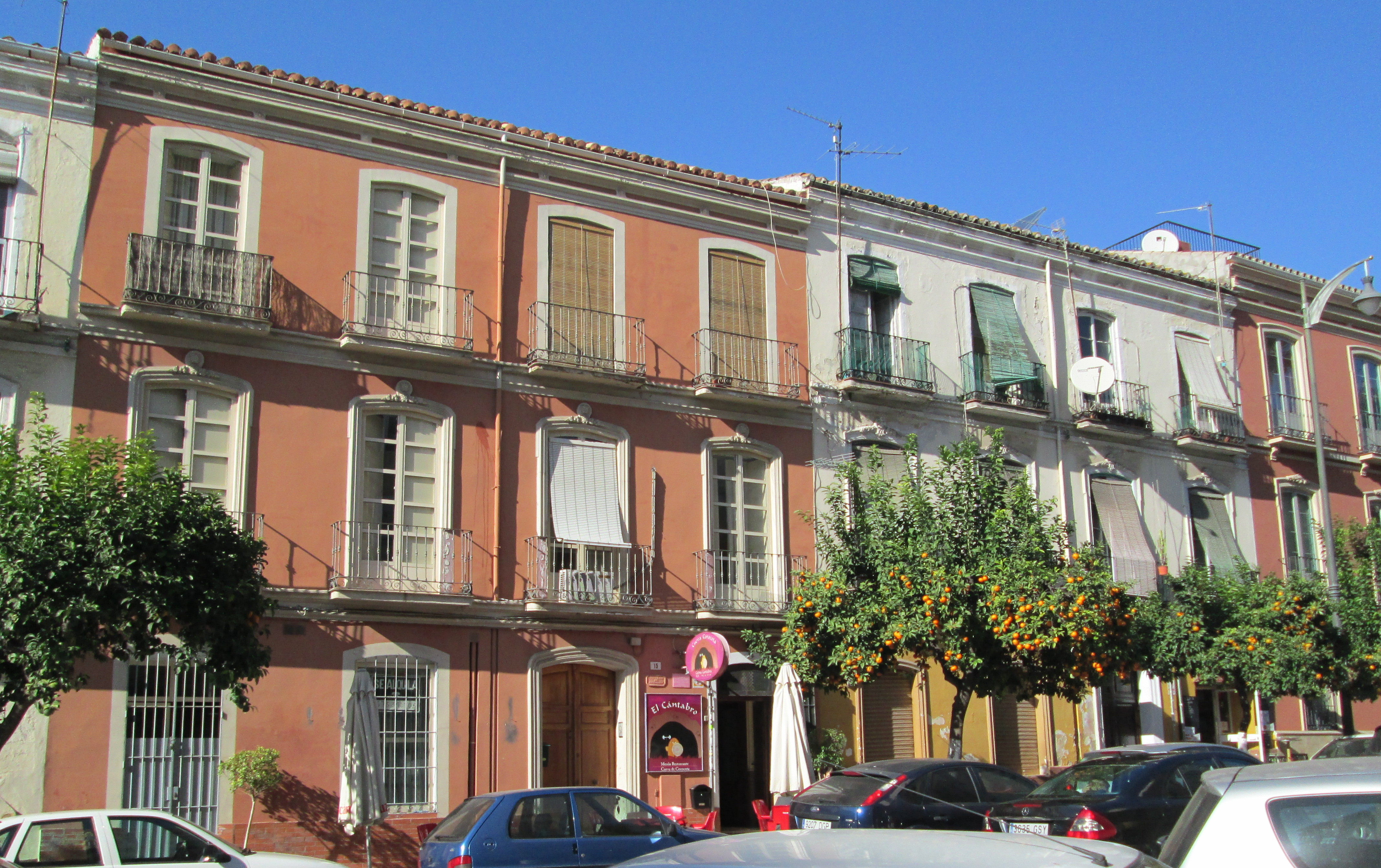 Calle Compás de la Victoria nos 17-19